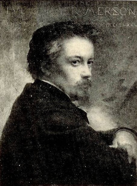 Portrait of French artist Luc-Olivier Merson (1846-1920)